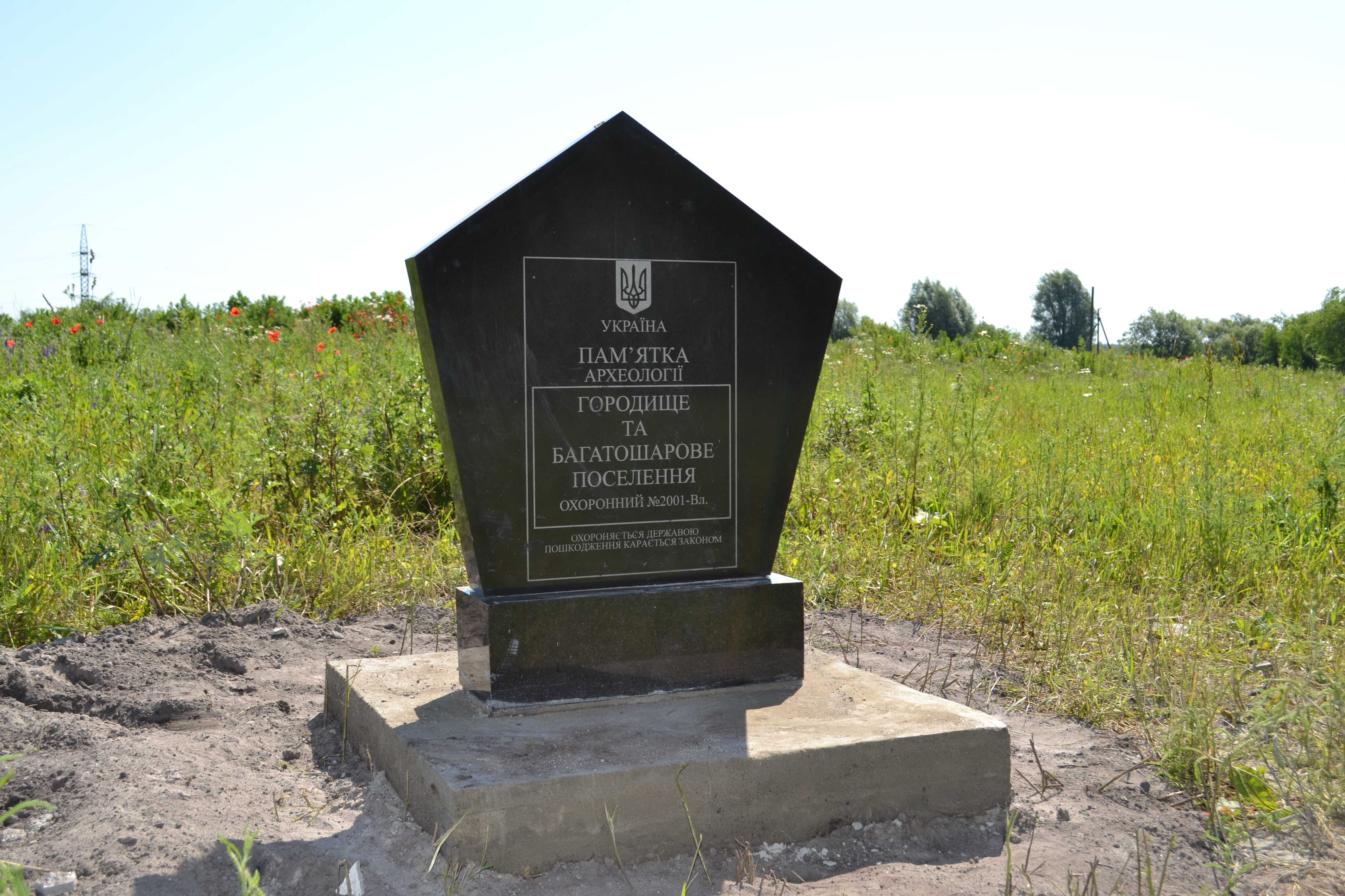 Security denotement of Gord in Shatsk, Ukraine